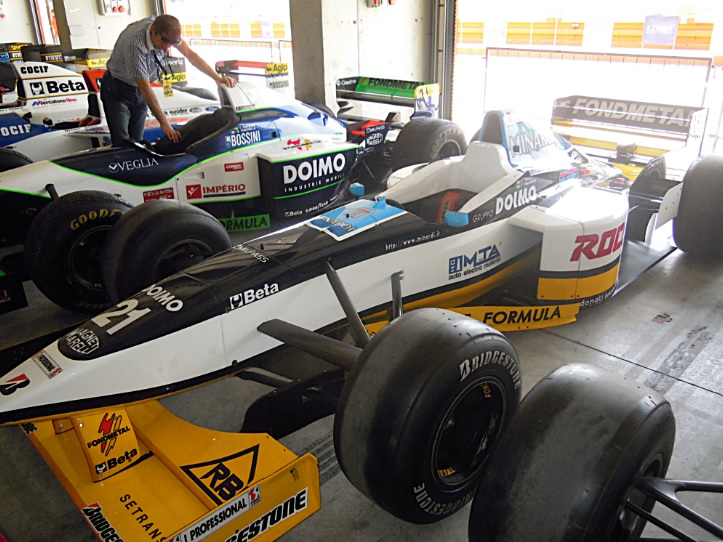 Minardi M197 exposed at the Autodromo Enzo e Dino Ferrari